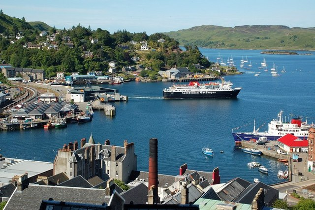 Leaving Oban Ferry Terminal Calmac's "Isle of Mull" leaving the terminal at Oban. Viewed from McCaig's Tower, in an adjacent square.